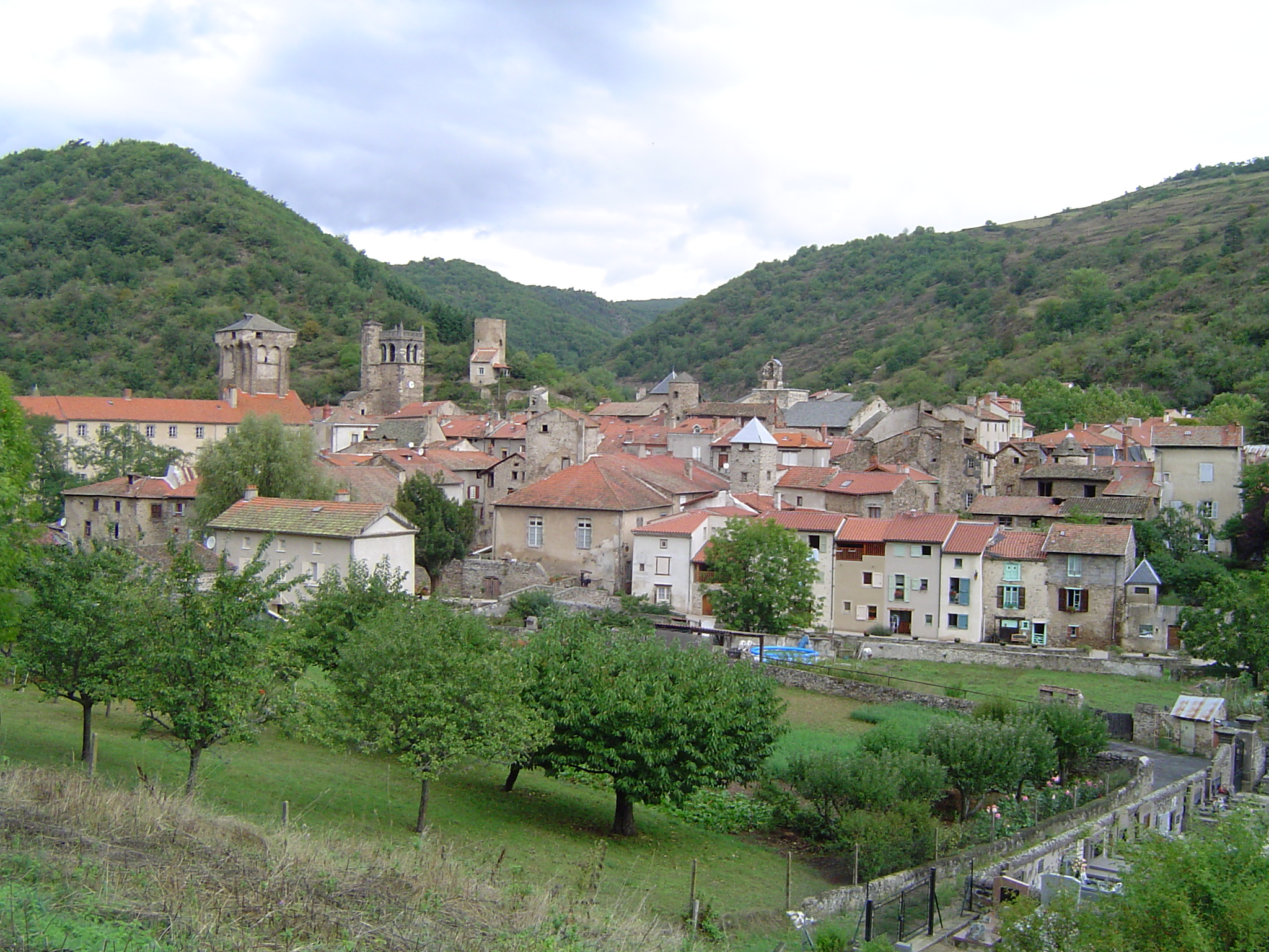 Blesle (Haute-Loire) vue d'ensemble